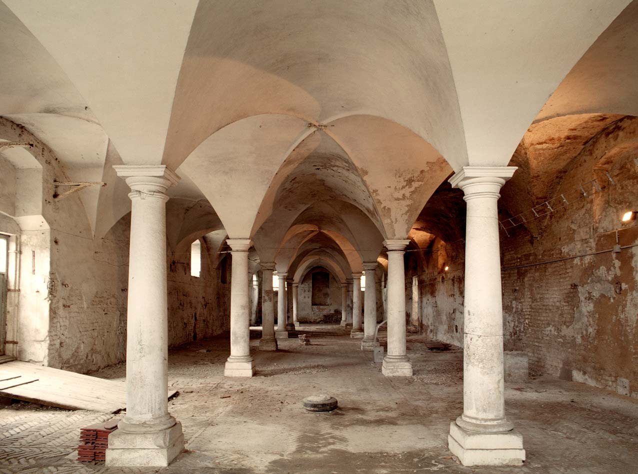 Horse stable of Neugebäude Palace. It is speculated that the hall was also used as a greenhouse before becoming a stable. The columns also indicate that the stables were used for representative functions, to showcase the fine horses to visitors. Similar decorative stables existed in other courts, for a view of the stables in the Belvedere palace in Vienna see this image.